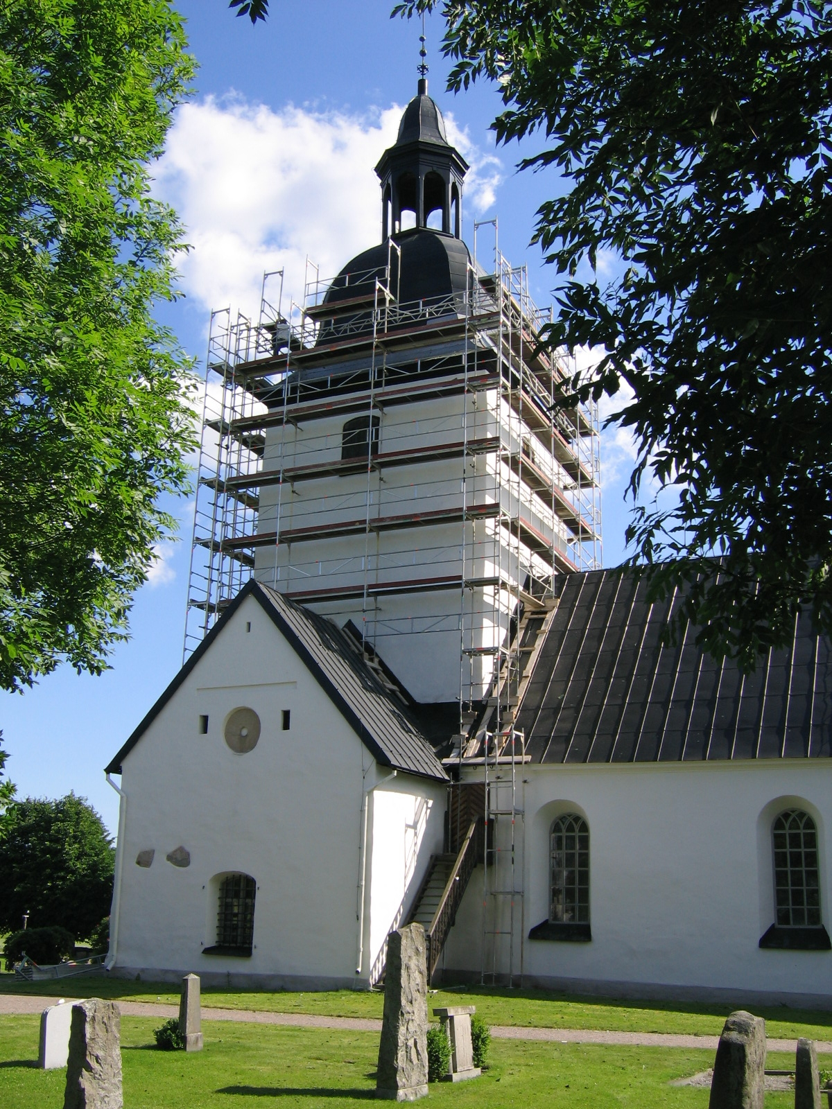 Färentuna Church, Uppland, Sweden. The runestone fragments U 20 and U 21 (see Färentuna Runestones) can be seen inserted in the wall of the porch.